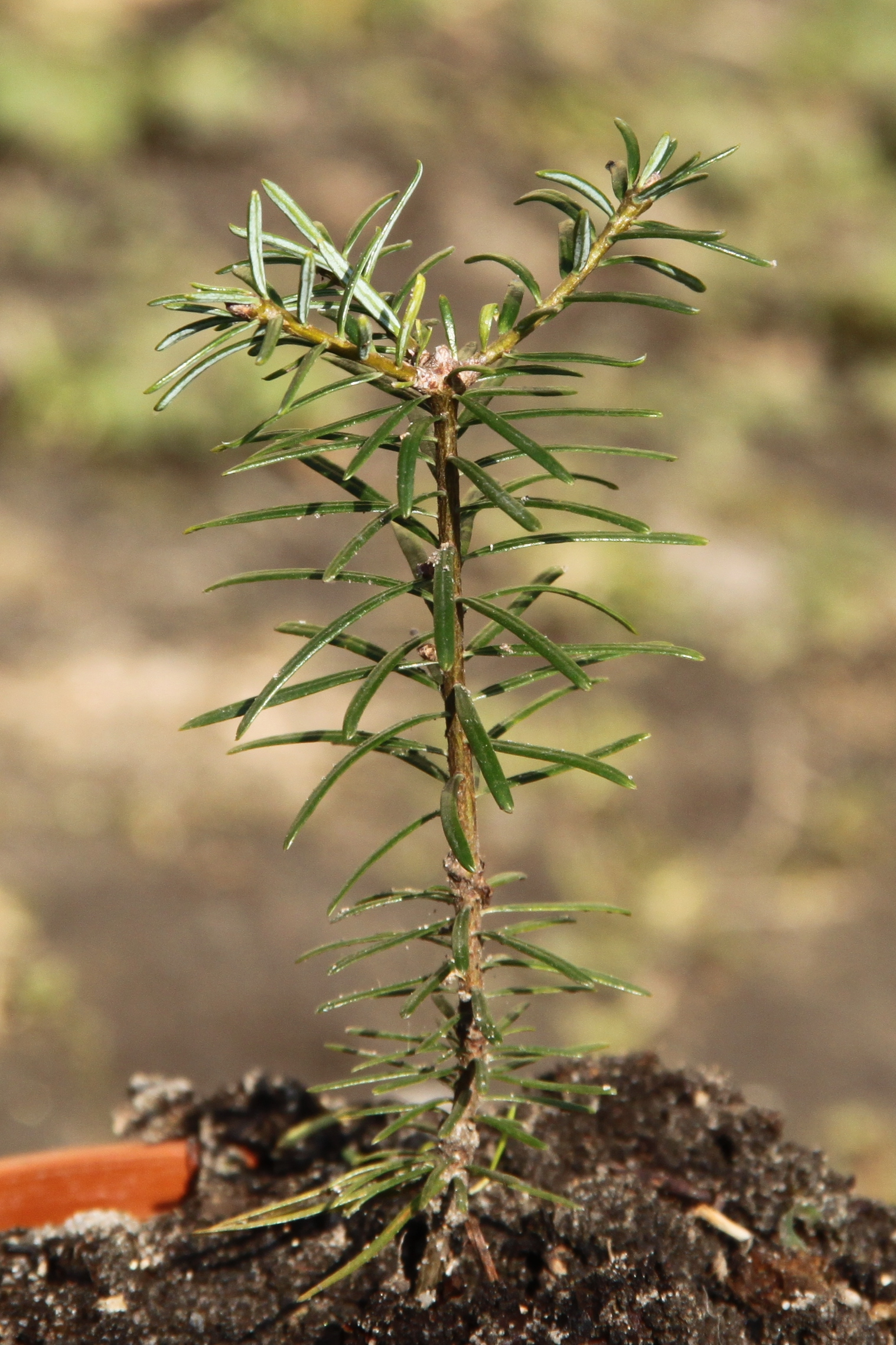 Grand Fir (Abies grandis) seedling, Marki, Poland.